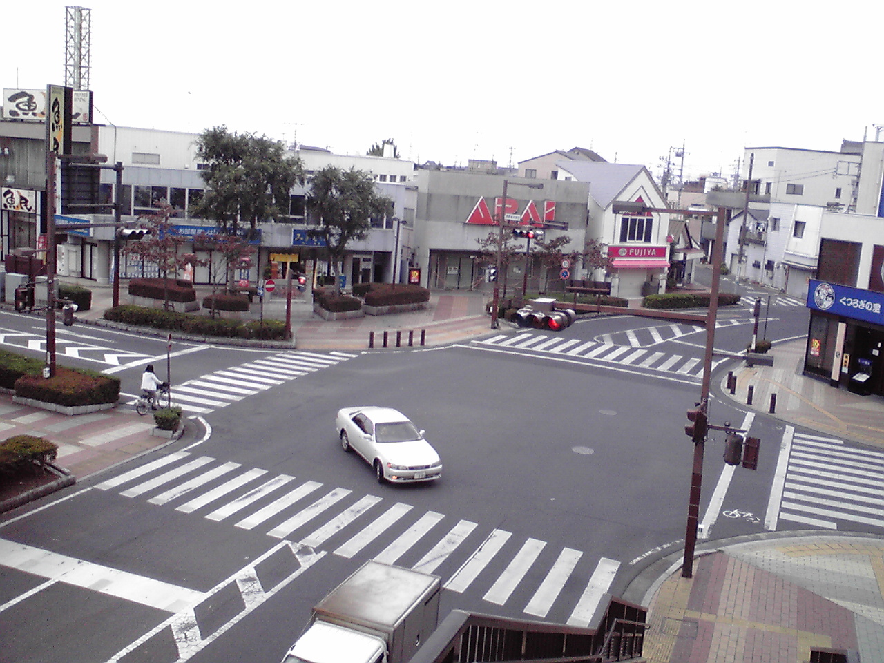 In front of Shimodate Station.